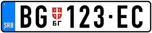 new Serbian vehicle rgistration number plates